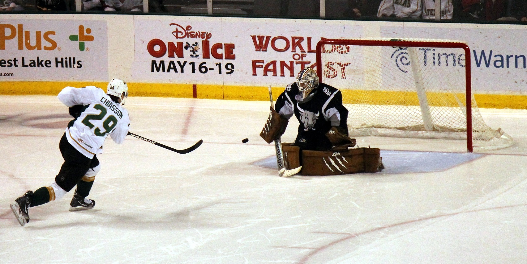 Alex Chiasson (left, Texas Stars) in a penalty shot against Dov Grumet-Morris (right, San Antonio Rampage)